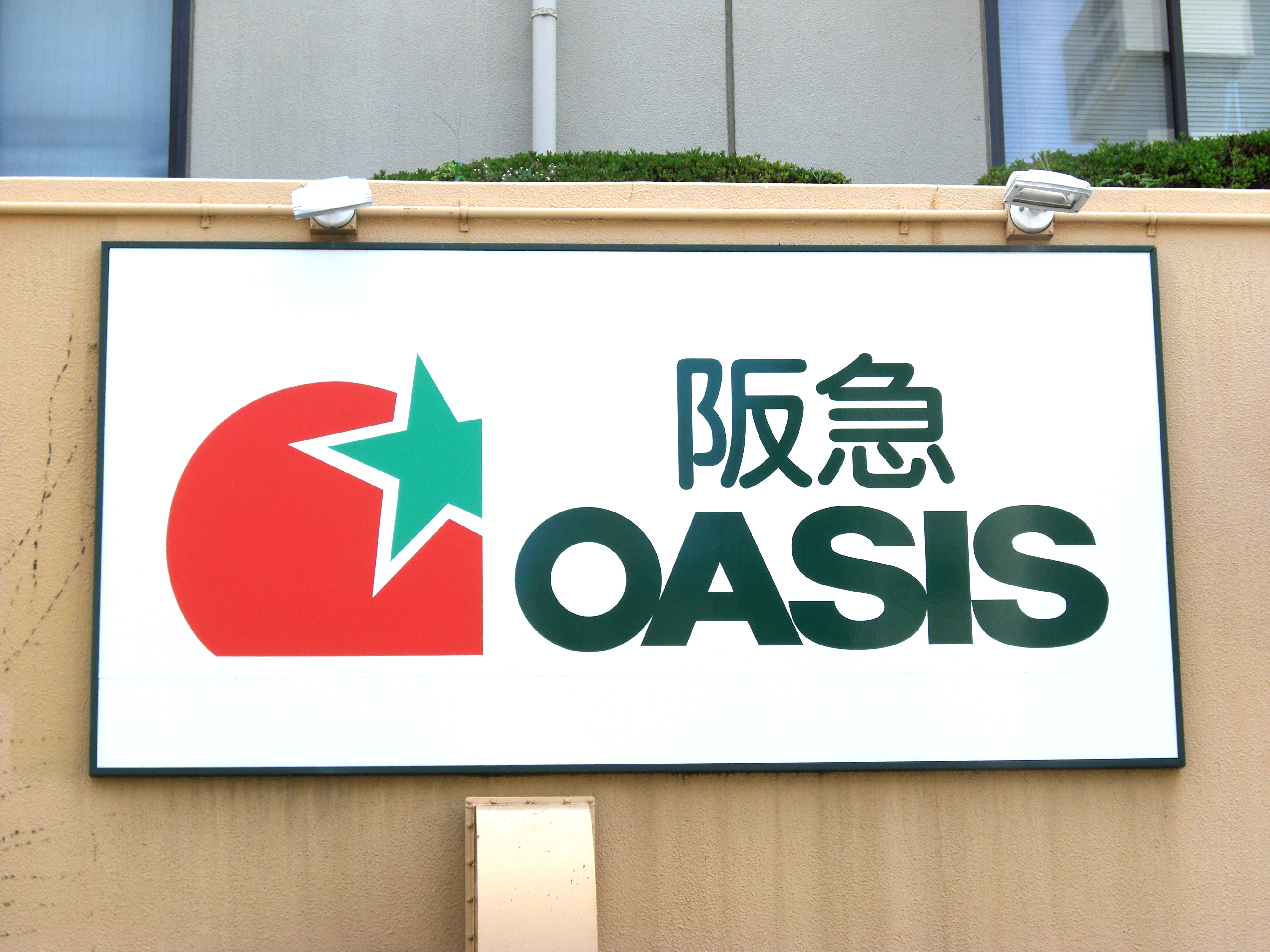 Hankyu OASIS,Higashiterauchicho Toyonaka-City Osaka Japan.